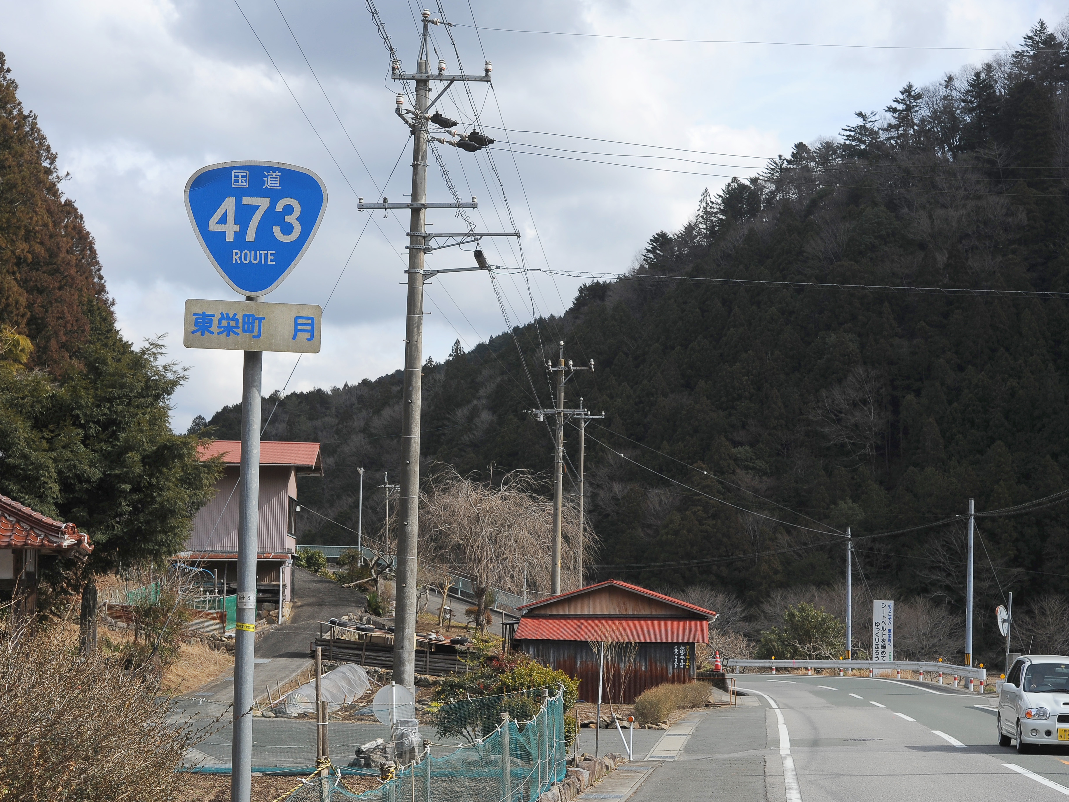 Route 473, Toei, Aichi